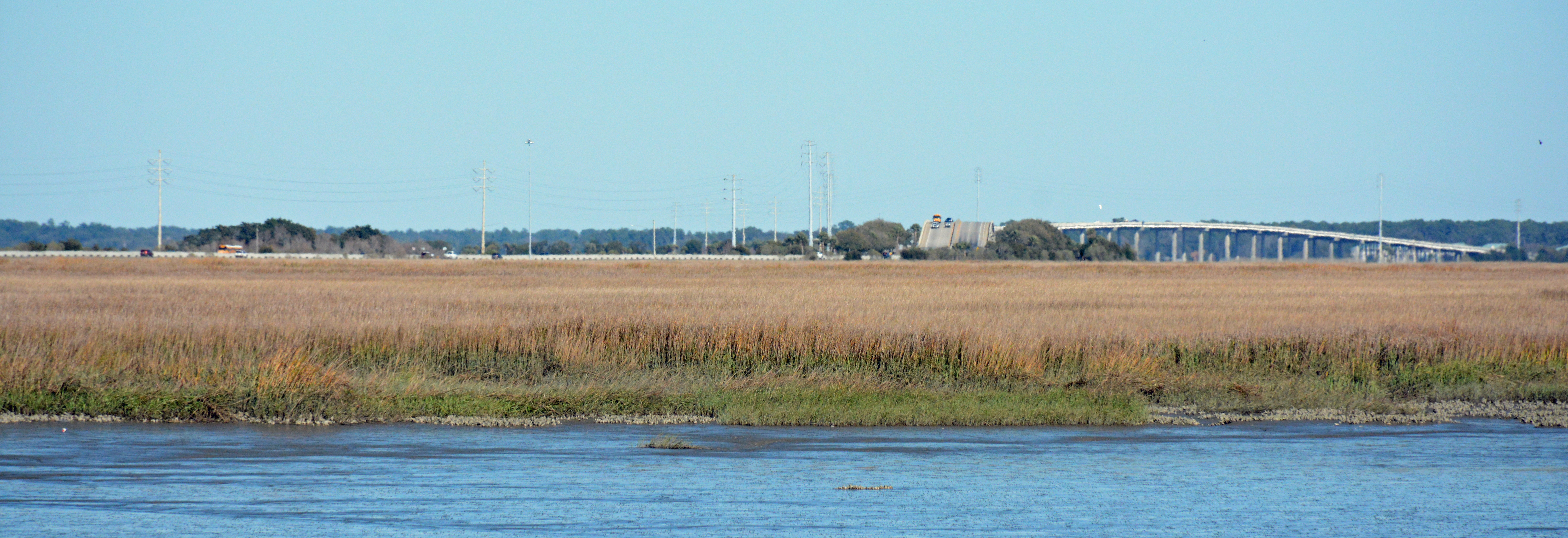 Part of the FJ Torras Causeway, connecting Brunswick, Georgia to St. Simons Island. The view is from Brunswick, over the Marshes of Glynn, and St. Simons is in the distance.